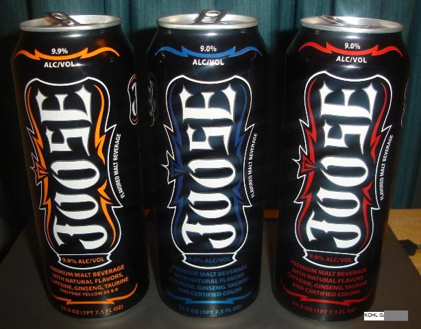 Joose products when they first came to Texas